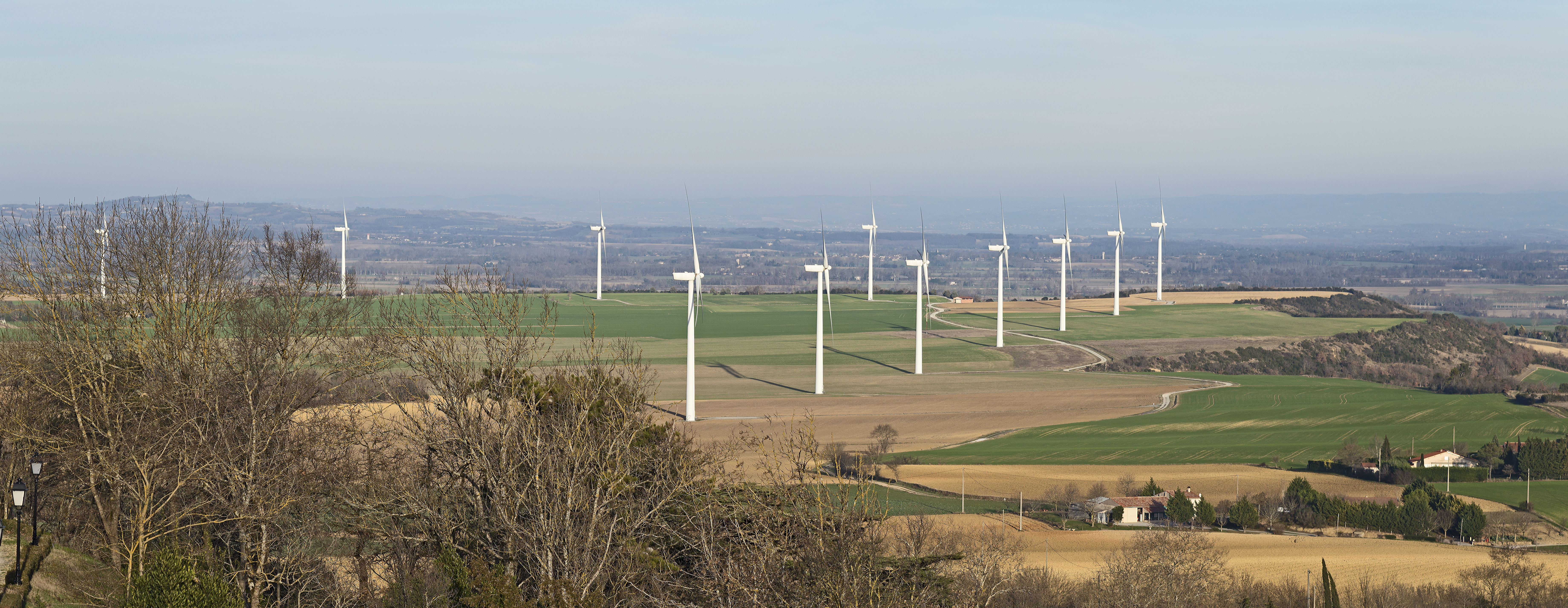 Windfarm in Lauragais, consisting of 11 machines spread over three communes of Haute-Garonne: Saint-Félix-Lauragais, Roumens and Montegut-Lauragais.